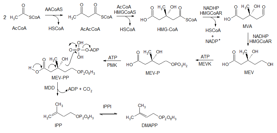 MEV Pathway